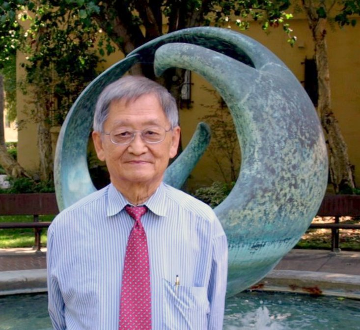 Joseph Fung in California